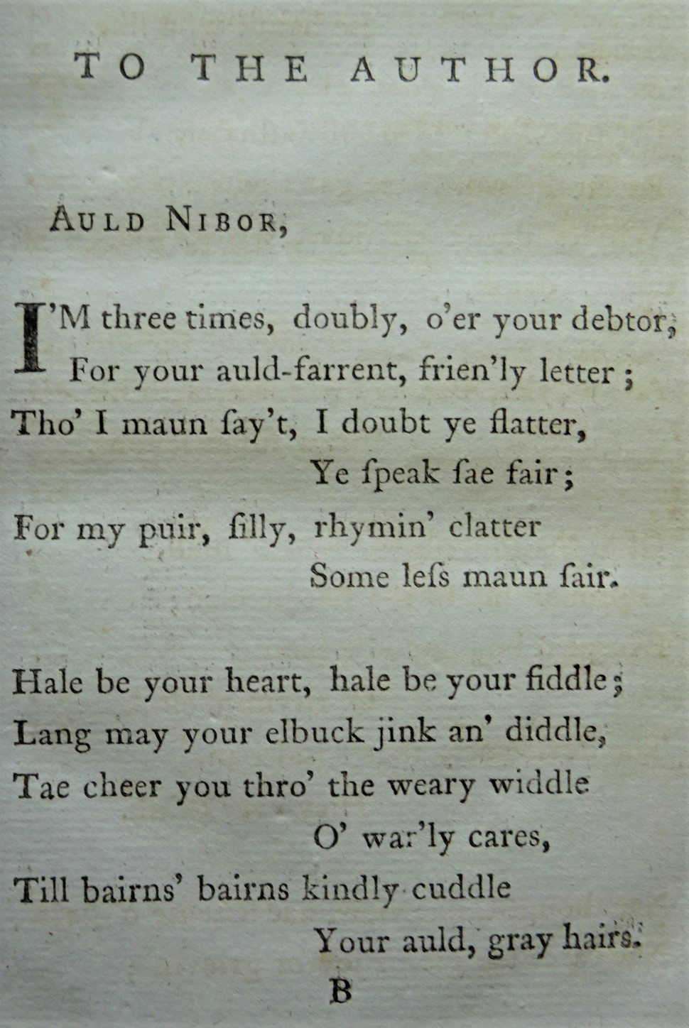 The poem 'To the Author' by Robert Burns as printed in 'Poems' by David Sillar.